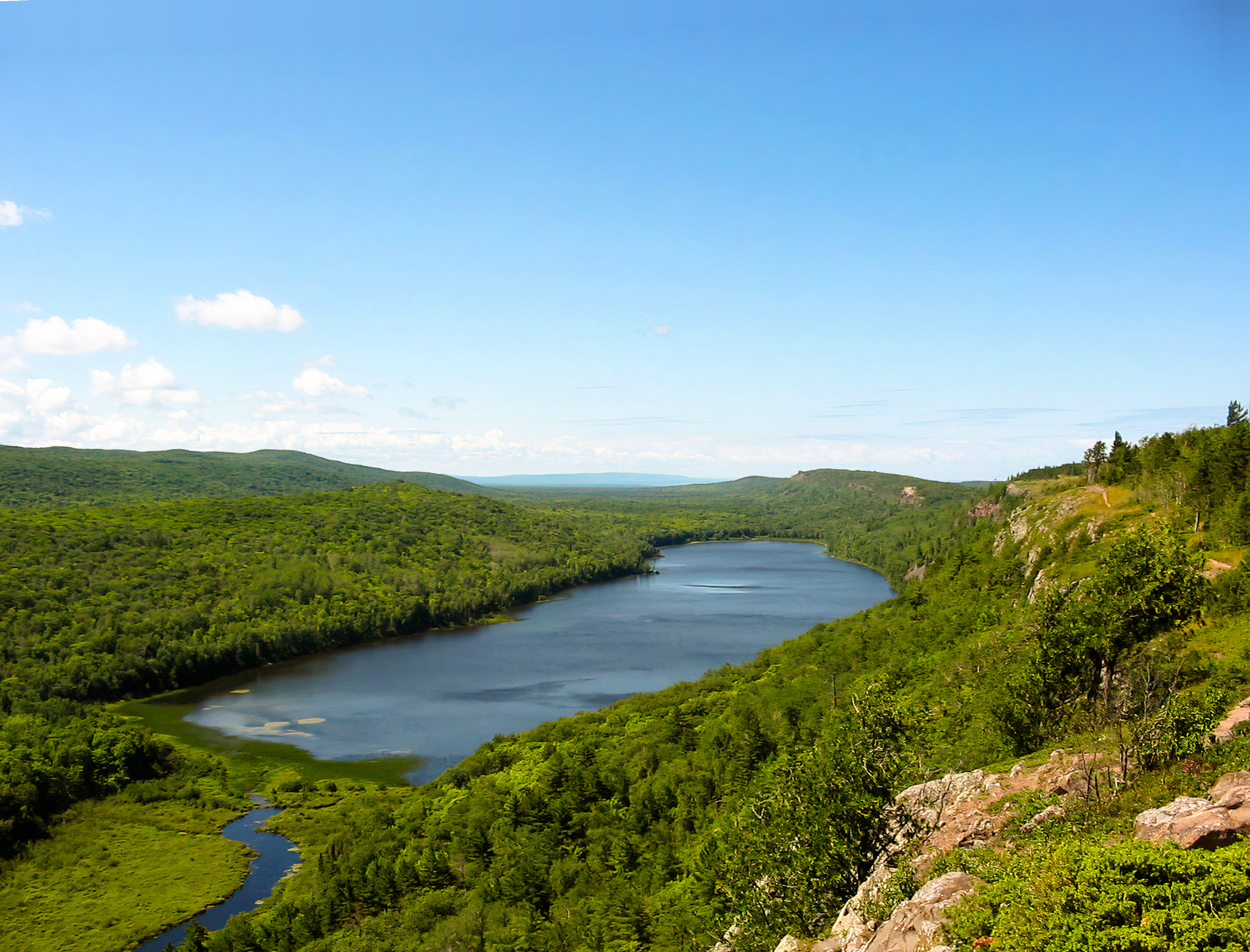 Lake of the Clouds as viewed from the Escarpment trail.